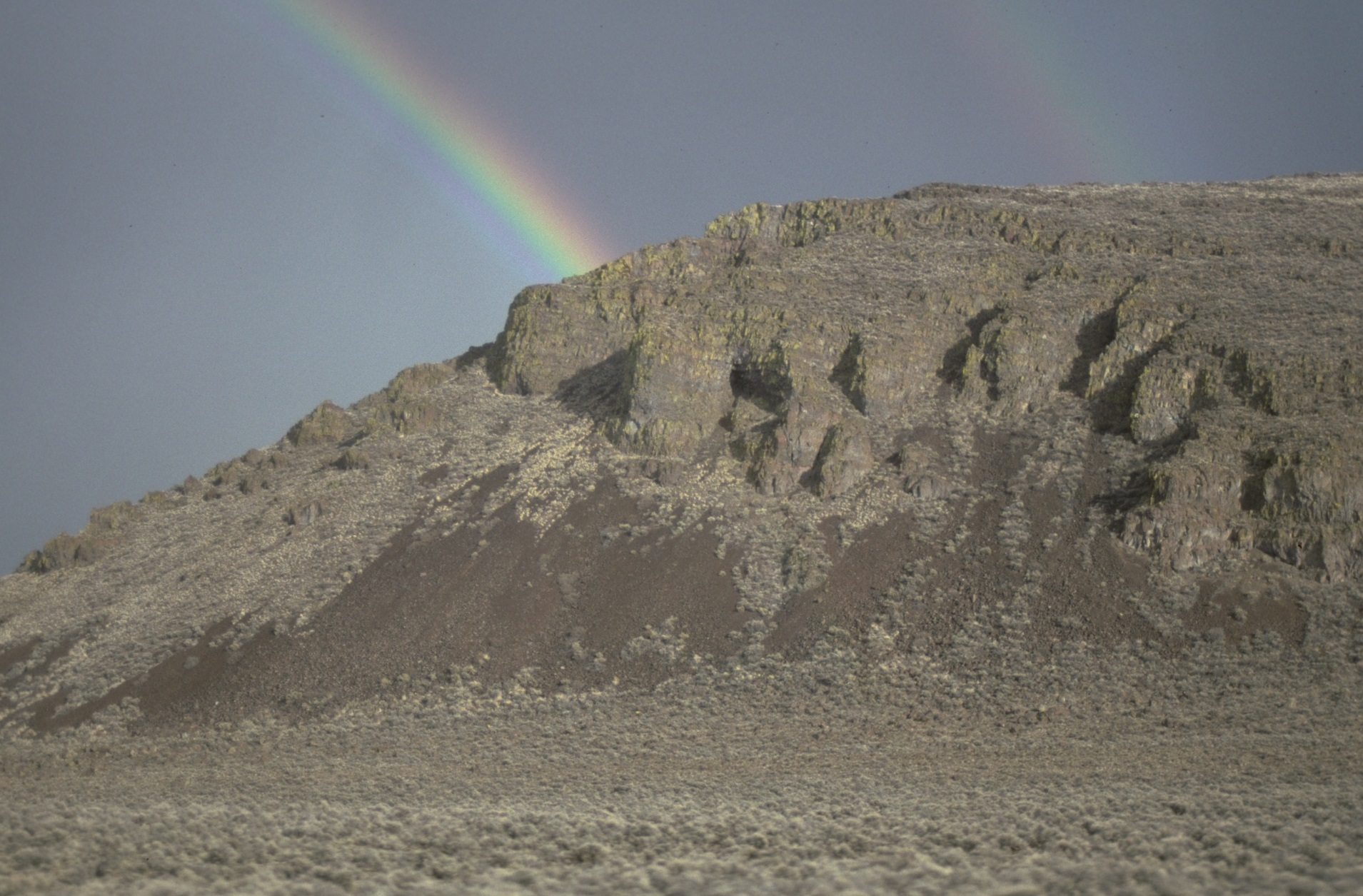 Rainbow over Catlow Rim with Catlow Valley below, Harney County, Oregon.